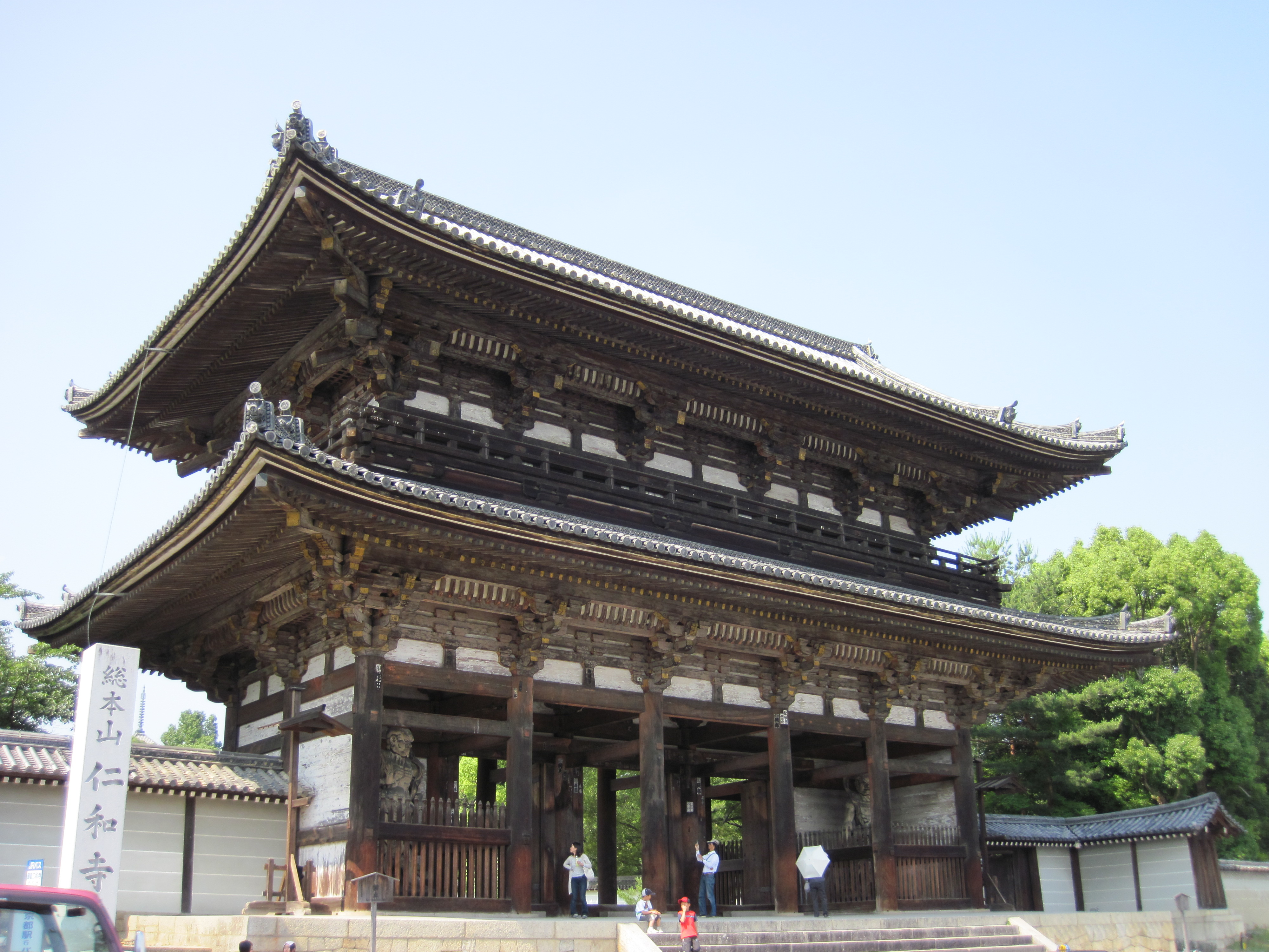 Ninna-ji National Treasure World heritage Kyoto 国宝・世界遺産 仁和寺 京都